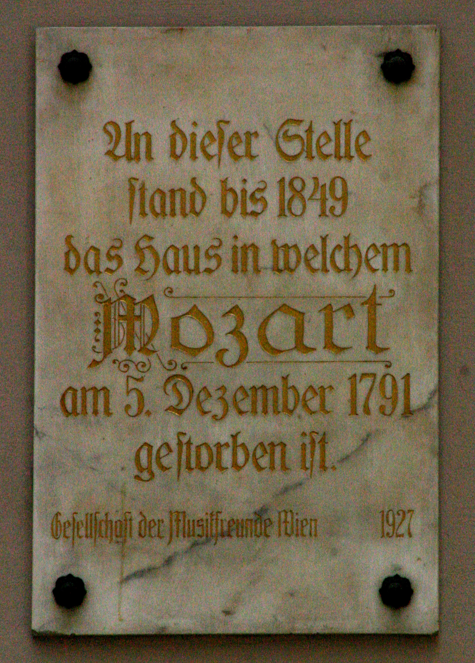 Plaque in Vienna